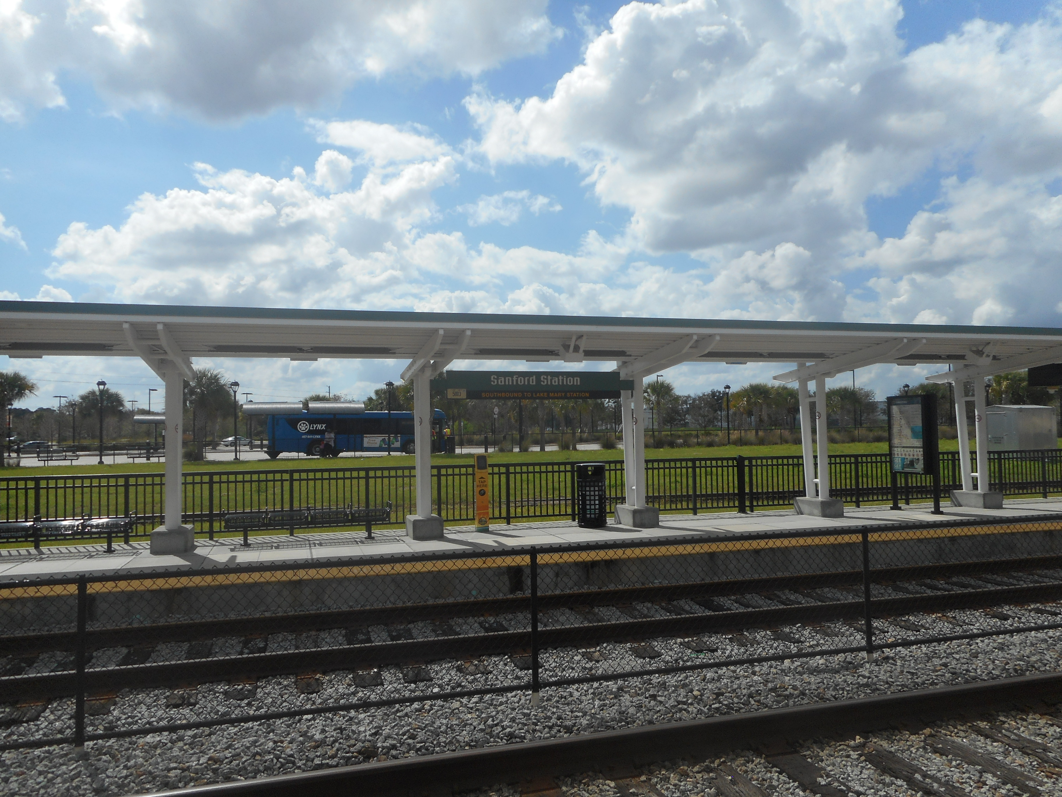 Various images related to the Sanford SunRail commuter railroad station in Sanford, Florida. Further details to come.